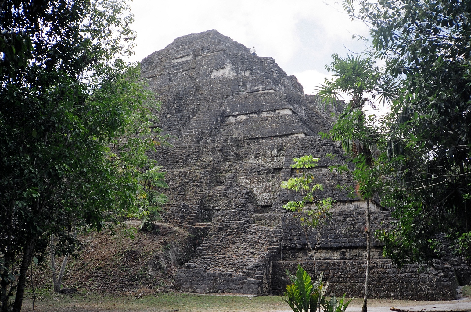 Partially restored pyramid 5C-54 (Lost World Pyramid), north face, Tikal, Peten, Guatemala.